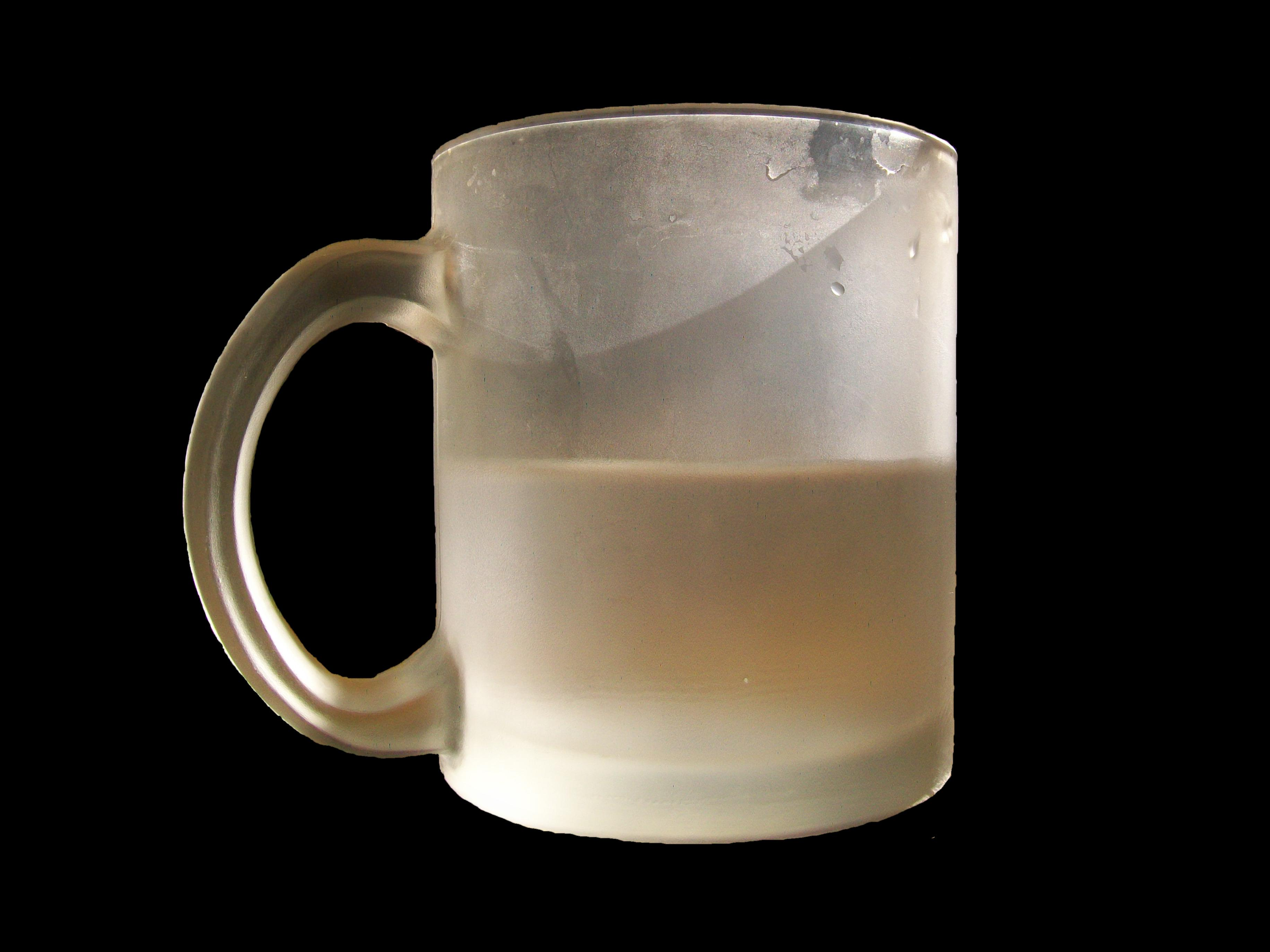 Glassware